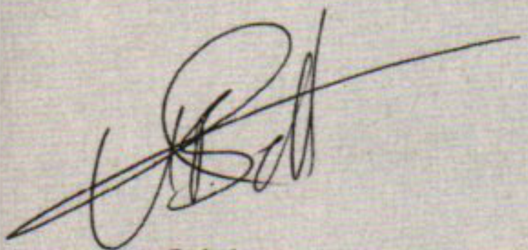 Usain Bolt signature.